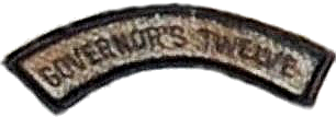 Image of the Army Combat Uniform (ACU) version of the Missouri National Guard Governor's Twelve Tab